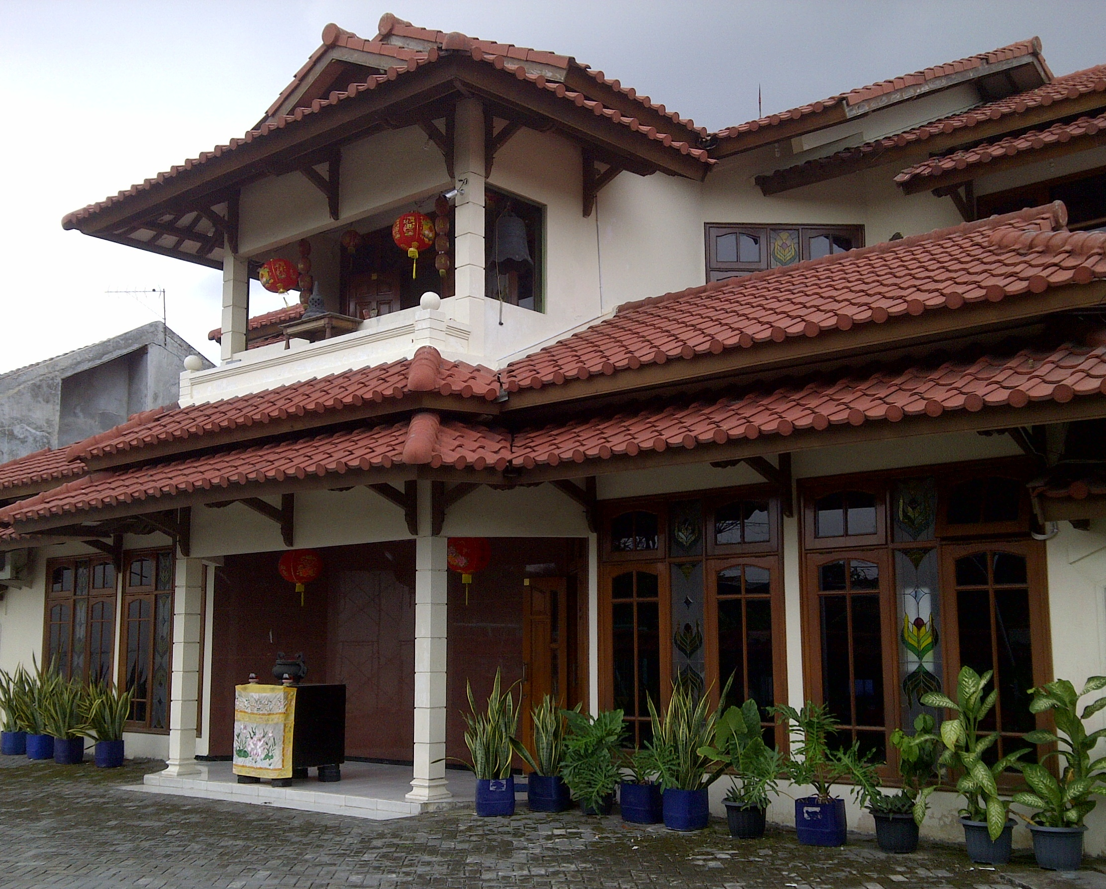 Buddhayana Dharmawira Centre, Surabaya, Indonesia